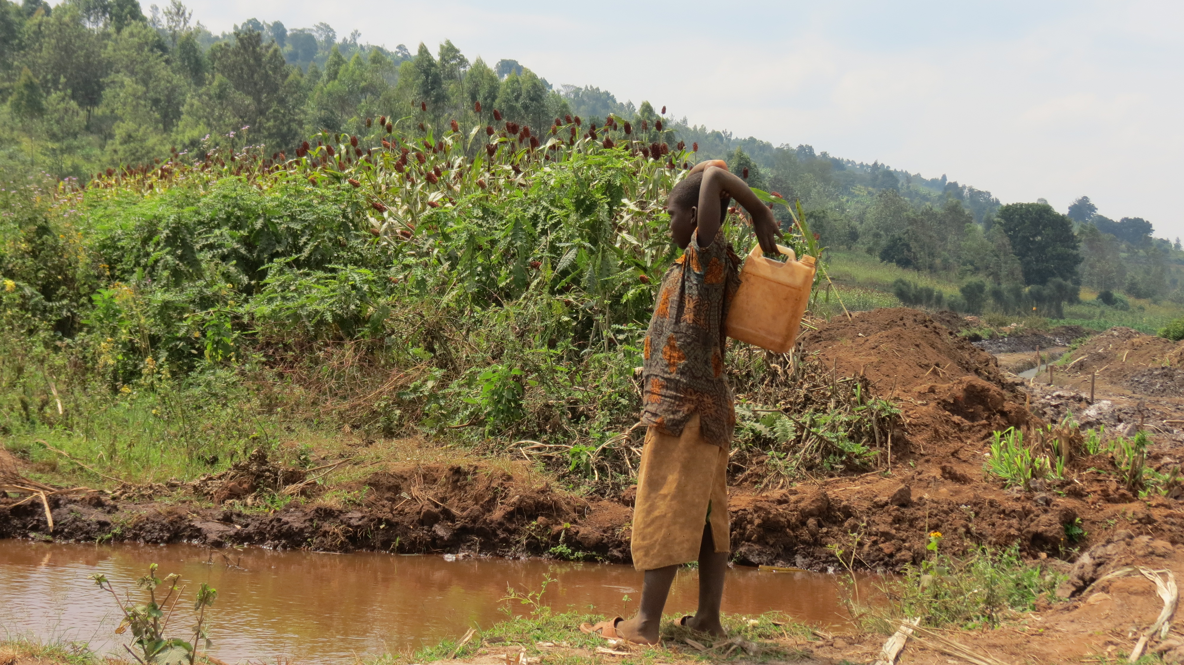 This child came to draw water from this river for his family for lack of drinking water This is an image of "African people at work" from Burundi